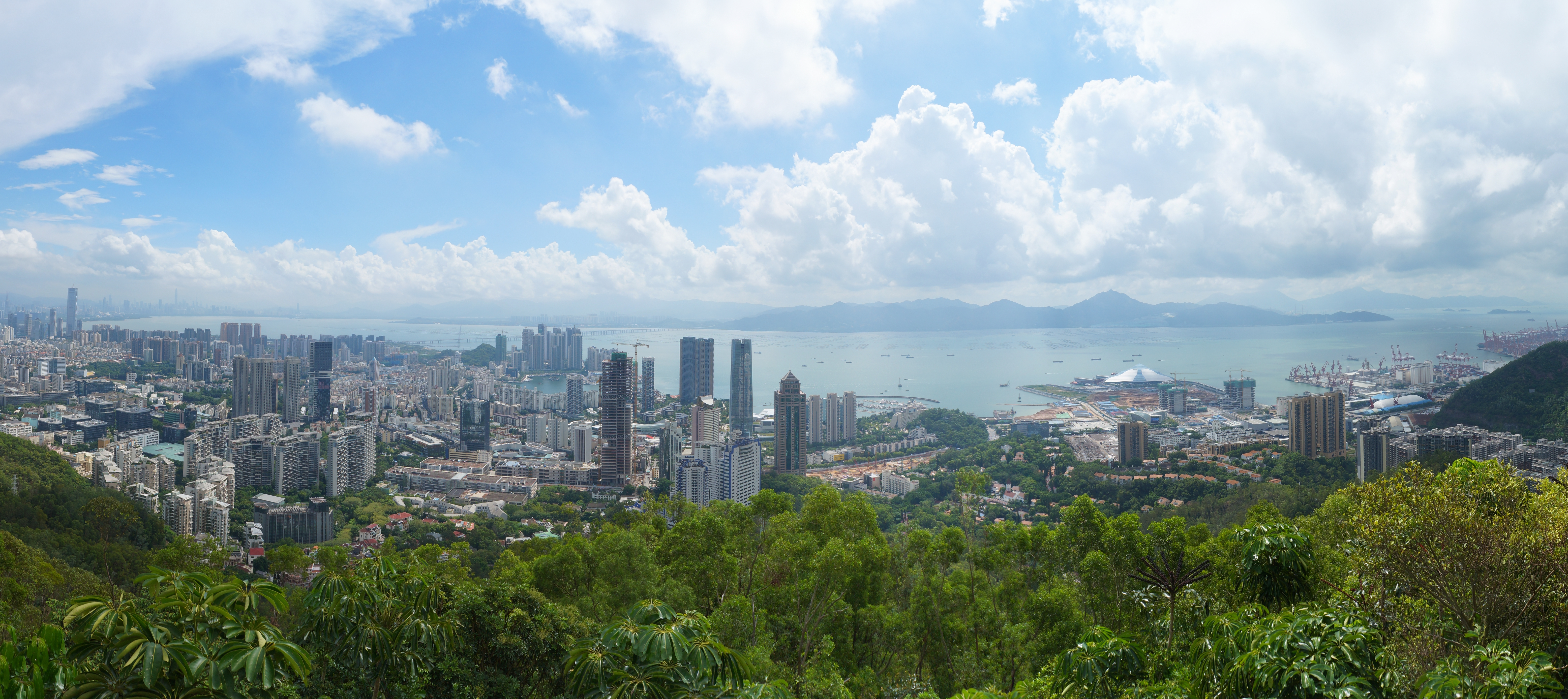 Deep Bay